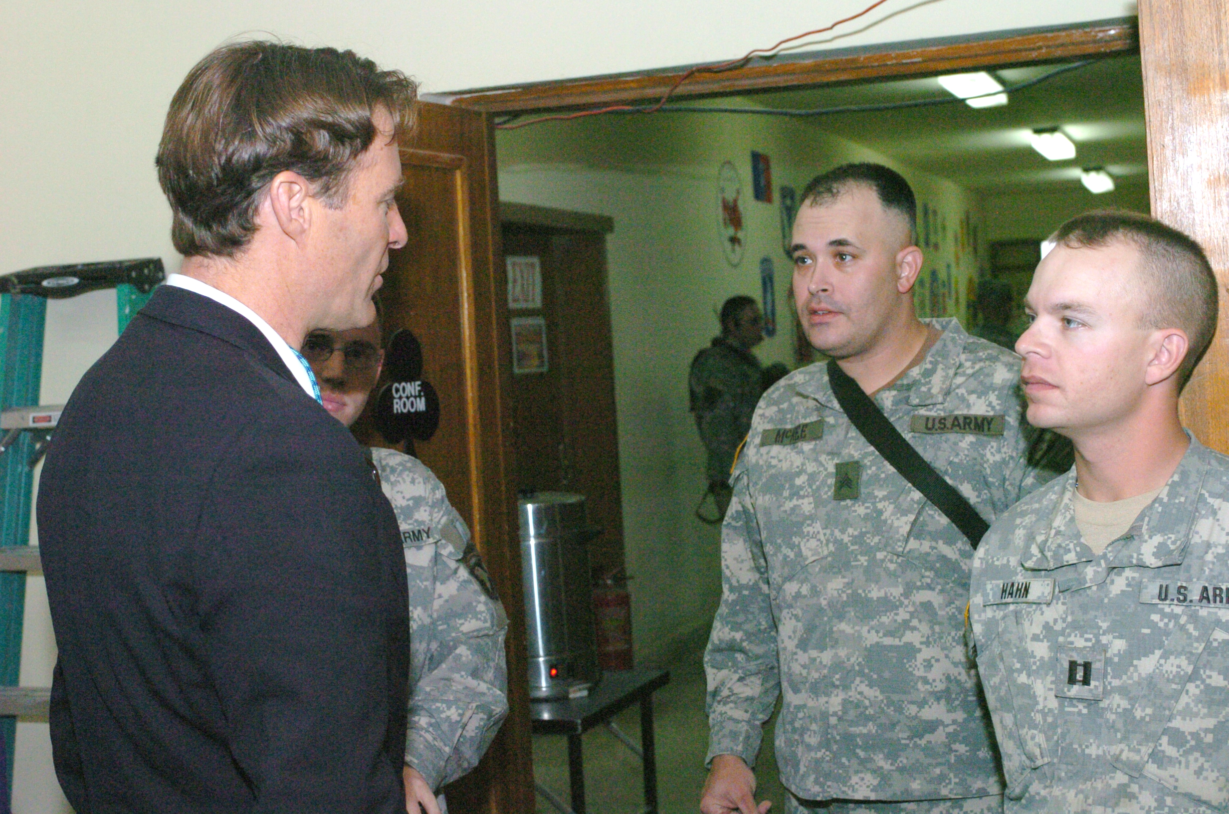 Senator Evan Bayh of Indiana talks with Soldiers of the 1st Brigade Combat Team, 101st Airborne Division stationed in Kirkuk, Iraq.